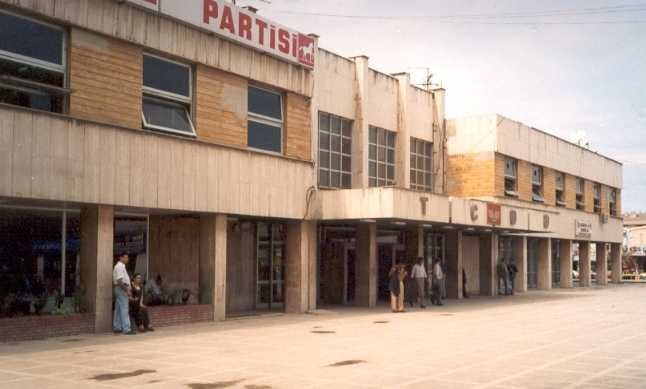 Adapazari station in 2004.